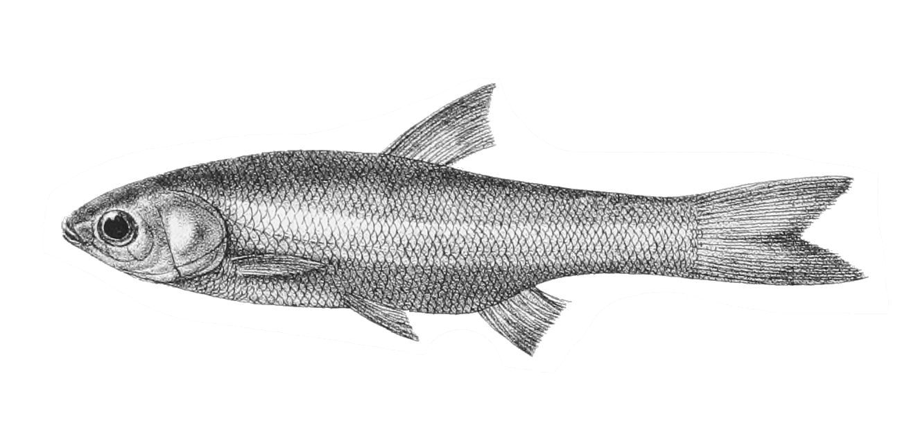 The species names / identity need verification - original names from plate are included here. The original plates showed the fishes facing right and have been flipped here. Amblypharyngodon microlepis